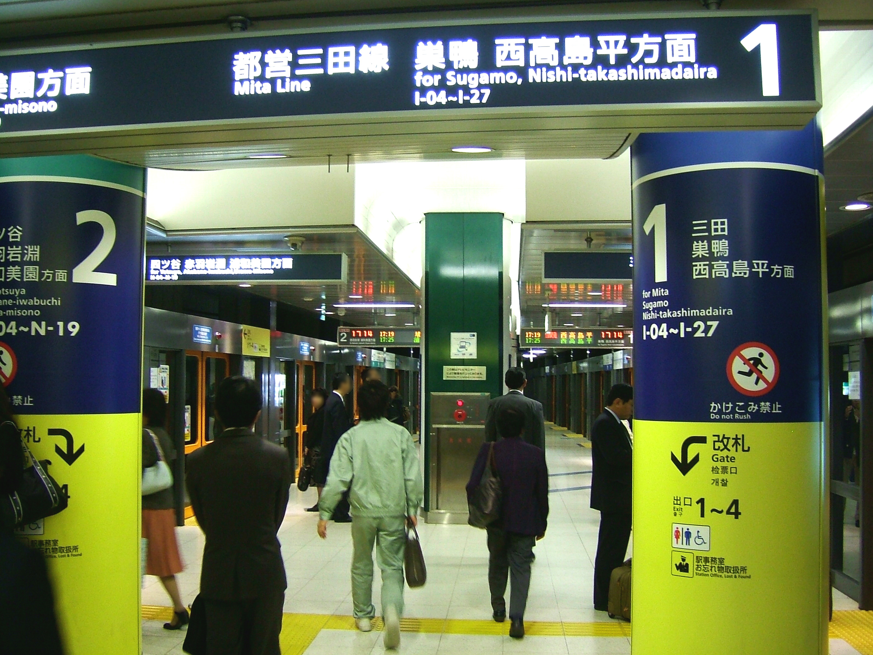 The Akabane-Iwabuchi-bound and Nishi-Takashimadaira-bound(no.1 and no.2) platform at Shirokane-Takanawa Station on the Tokyo Metro Namboku Line and the Toei Mita Line in Minato city, Tokyo, Japan